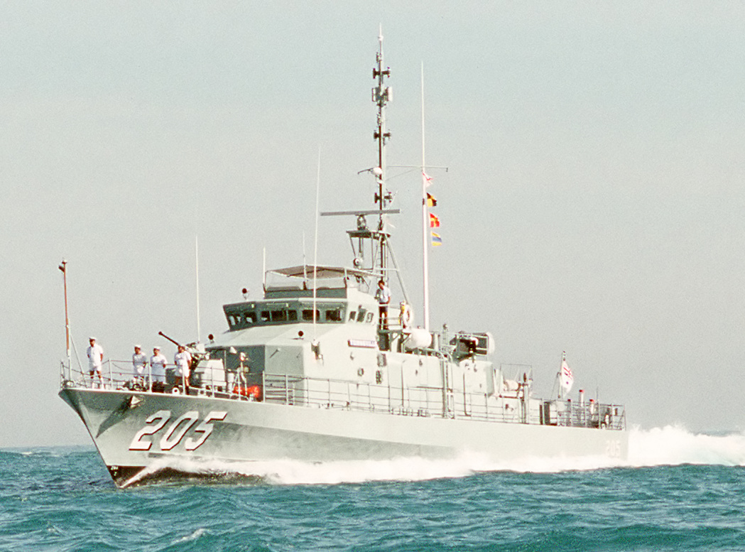 HMAS Townsville (FCPB 205), cropped from: The Royal Australian Navy large patrol craft HMAS TOWNSVILLE (205) and the US Navy's frigate USS ROBERT E. PEARY (FF 1073) come into port for the joint naval exercise KANGAROO '89.